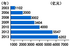 Zhengzhou GDP